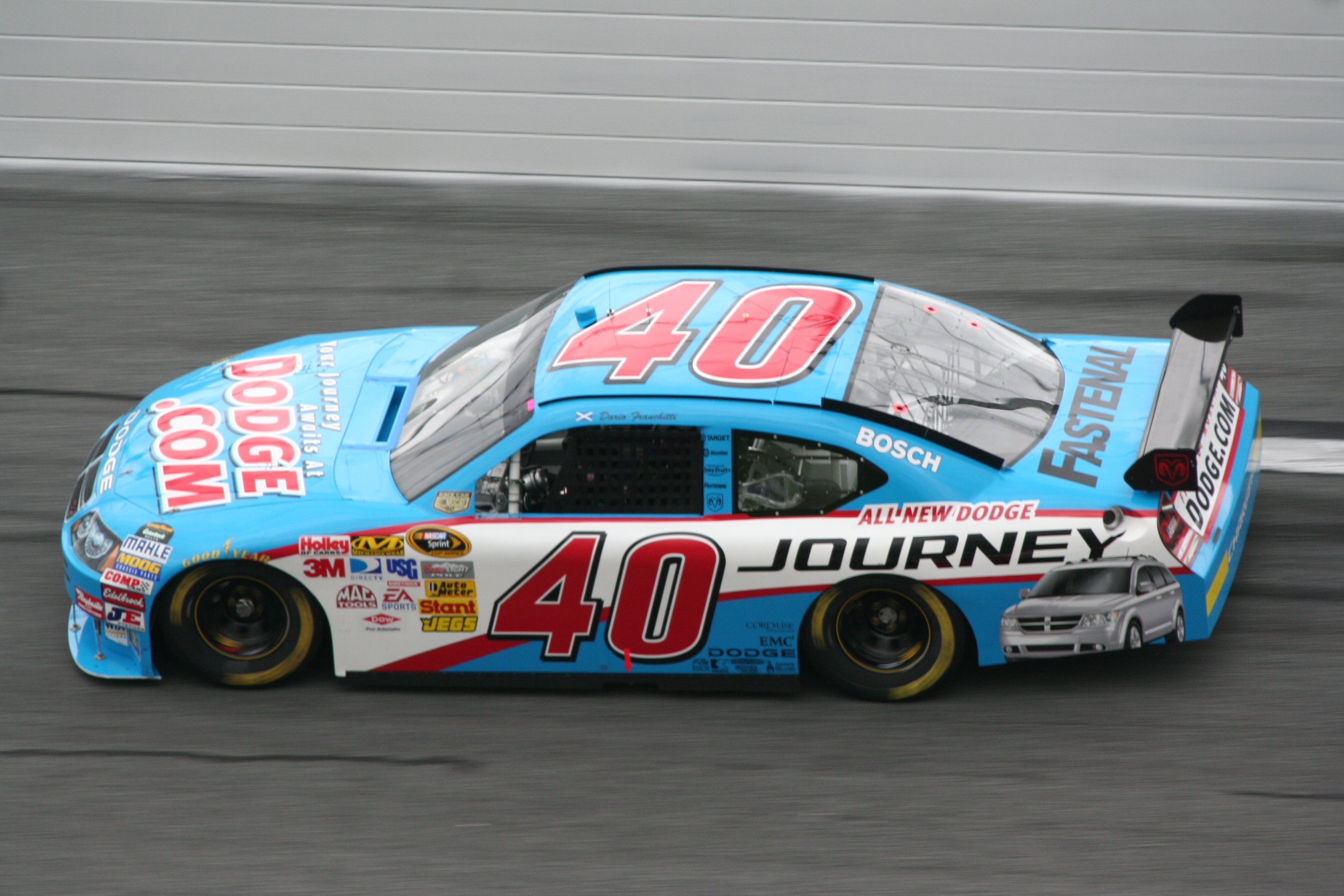 Shot by The Daredevil at Daytona during Speedweeks 2008Dario Franchitti Dodge Journey Charger